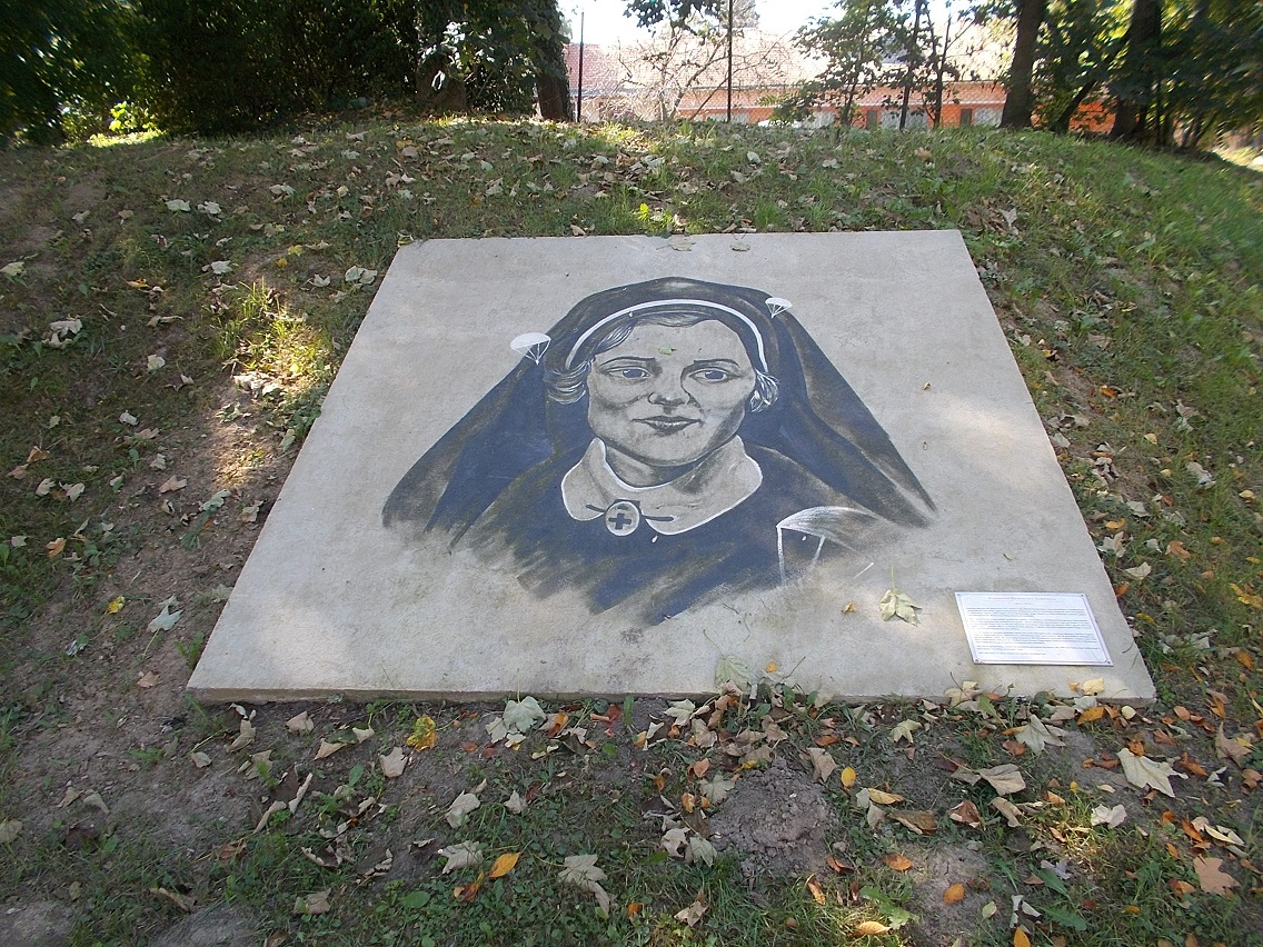 Gabriella Medveczky graffitti?-plaque (2017 graffitti-like work, unknown artist) - Kossuth Lajos street corner, Dombóvár, Tolna County, Hungary.